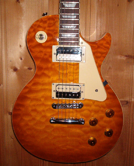 Picture of Bacchus Les Paul style guitar